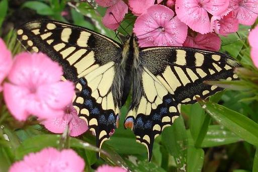 Swallowtail Butterfly RSPB Strumpshaw Fen Norfolk Swallowtail Butterfly at one of the few sites in England that they breed. One more for the Gallery.